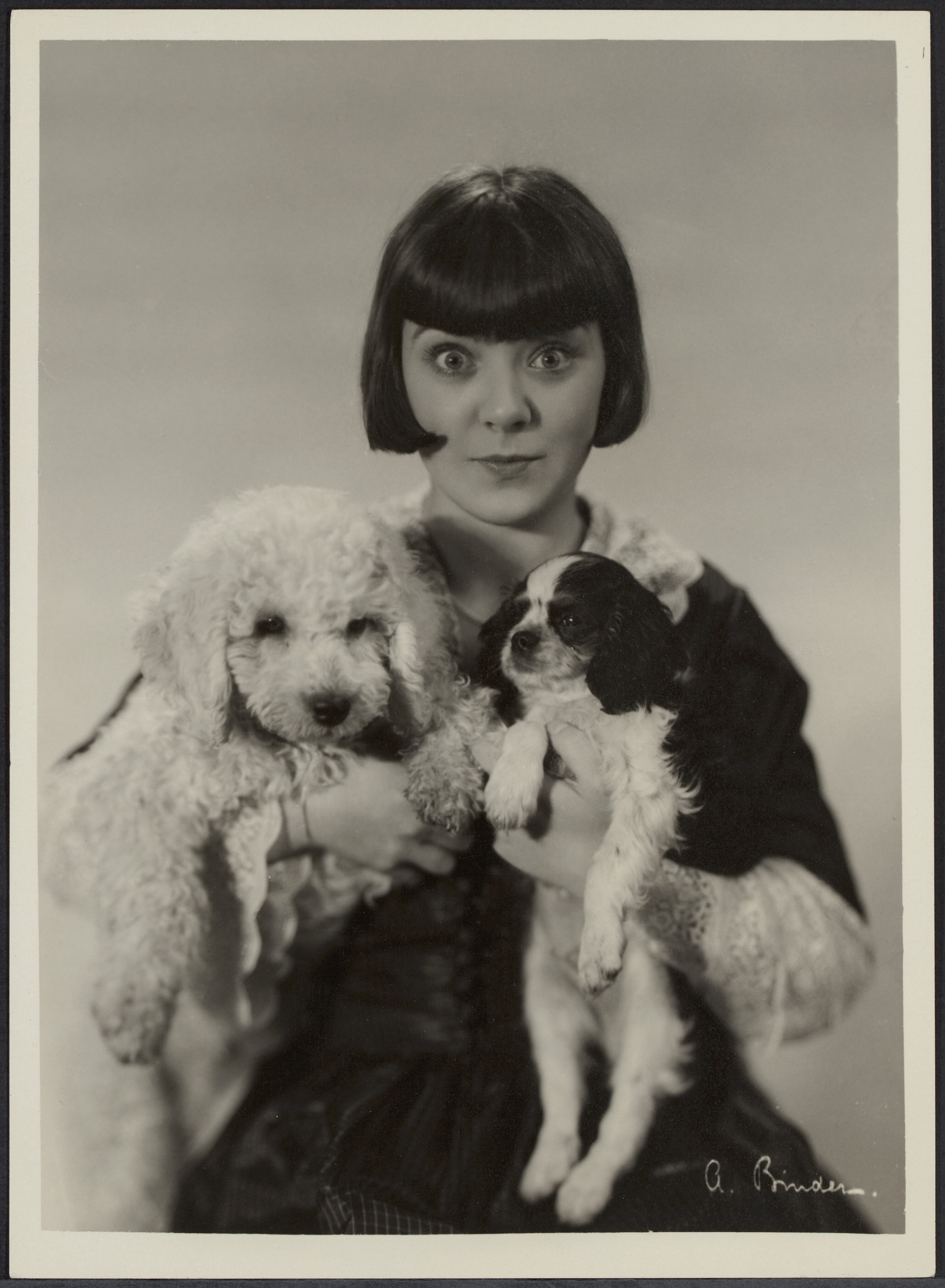 Truus van Aalten (Dutch film actress, 1910-1999) with two dogs. 24 x 17 cm.